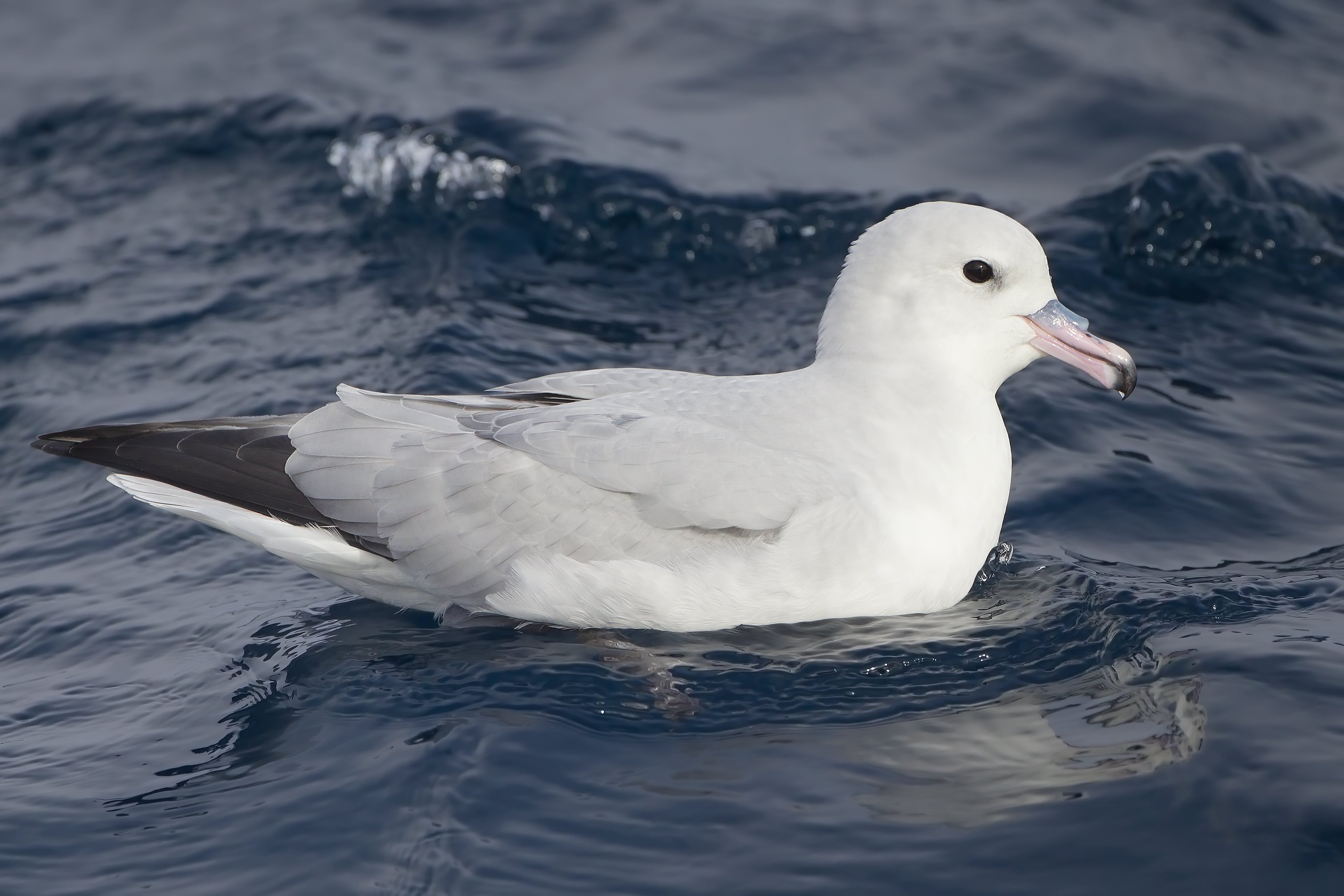 Southern Fulmar (Fulmarus glacialoides), East of the Tasman Peninsula, Tasmania, Australia